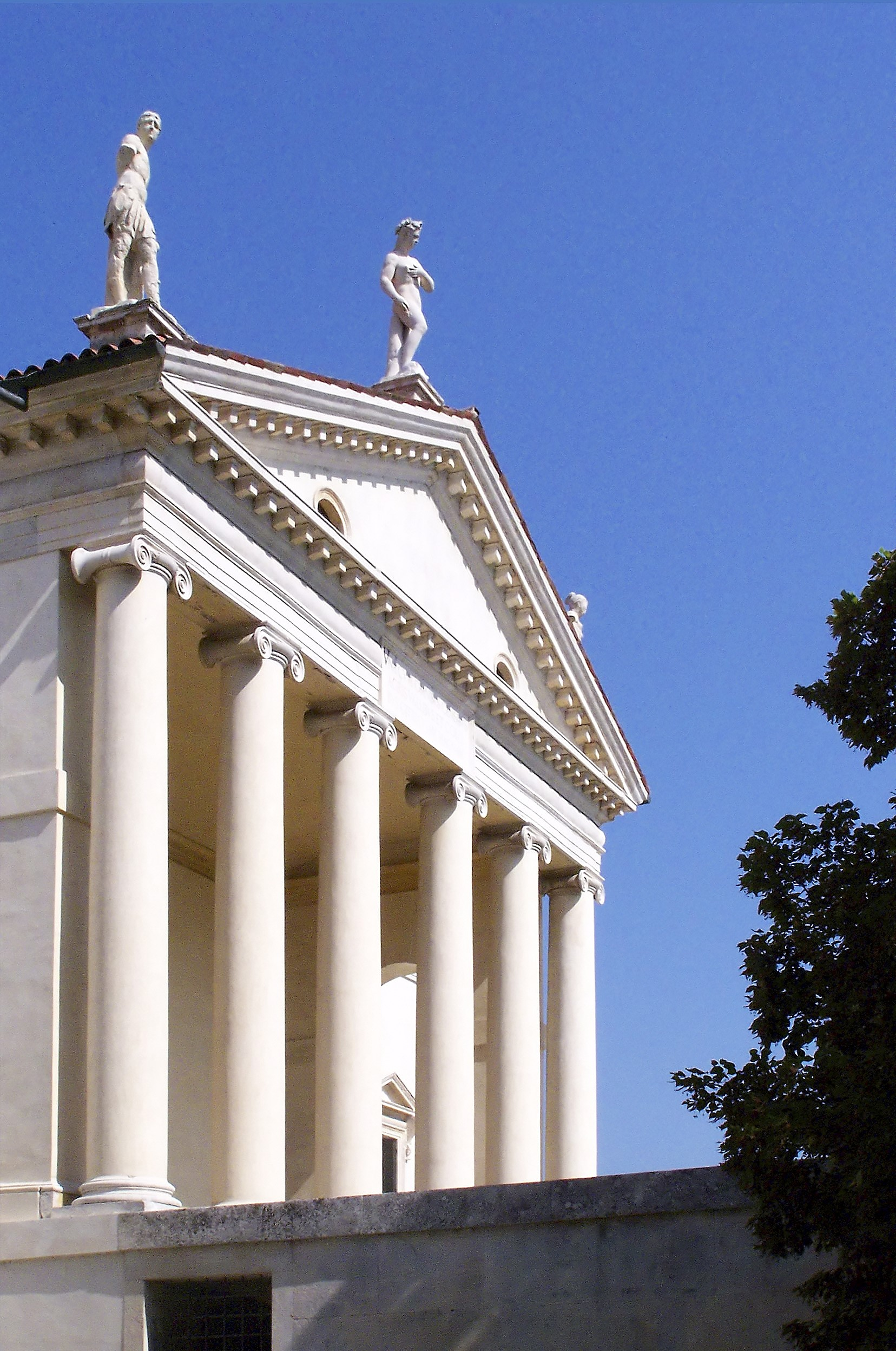 Noise reducted version of Image:Palladio-La-Rotonda.jpg, still PD